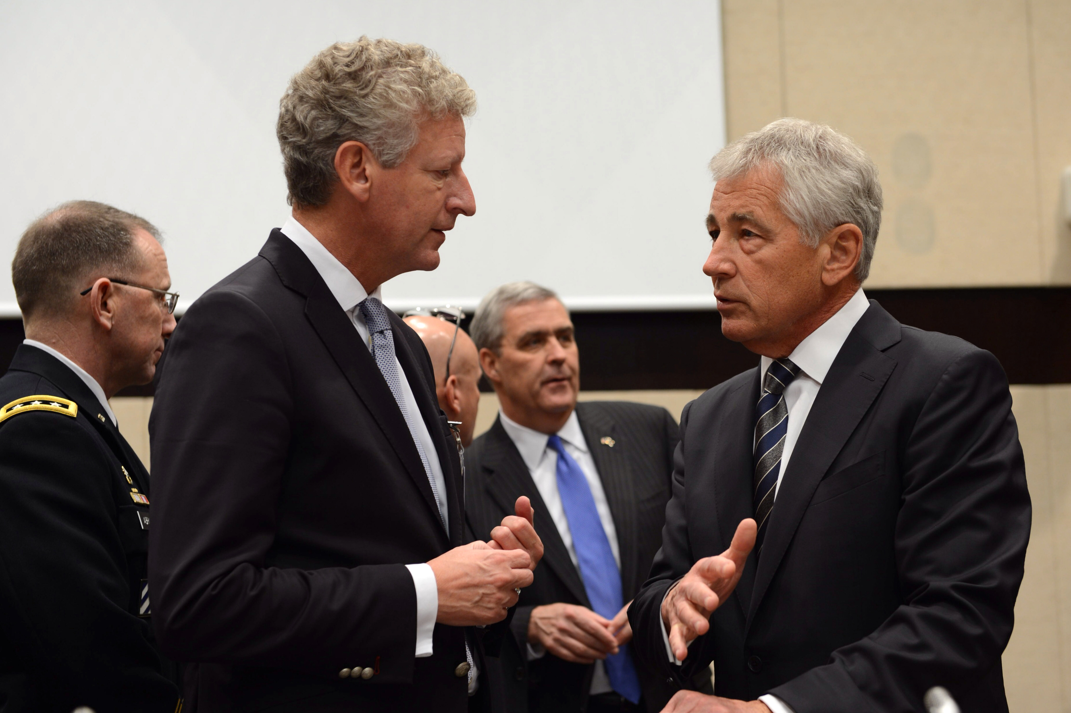 Secretary of Defense Chuck Hagel, right, speaks with Belgian Minister of Defense Pieter De Crem prior to a meeting of the non-NATO International Security Assistance Force contributing nations at NATO headquarters in Brussels, Belgium, on Oct. 23, 2013. Hagel is meeting with NATO defense ministers to discuss post-2014 Afghanistan, prepare for next year’s NATO summit in the United Kingdom, and discuss the role of NATO in the coming years.